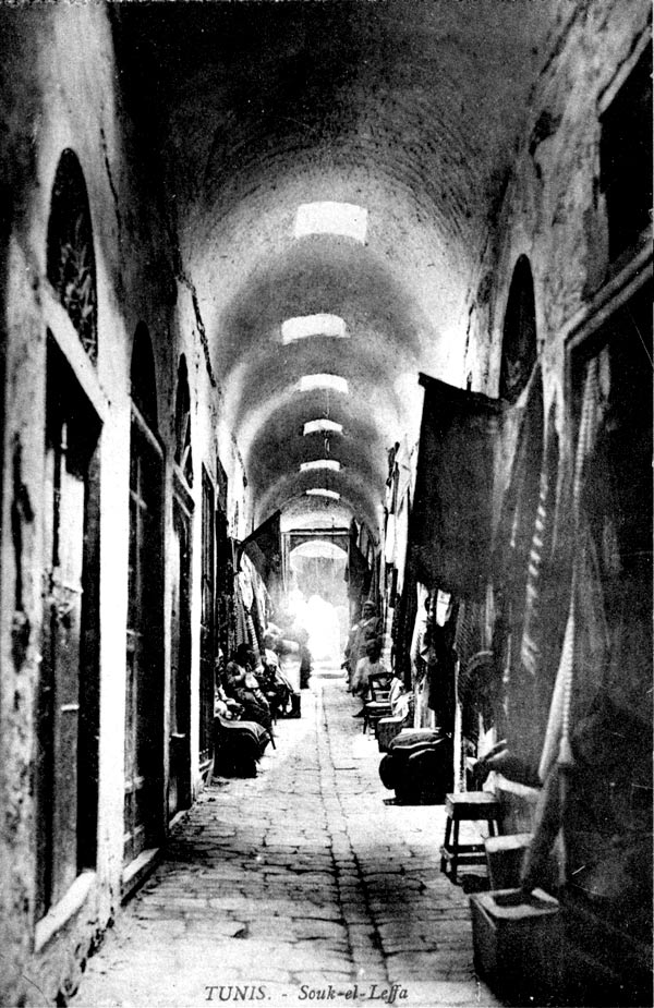 Ancienne vue du souk El leffa